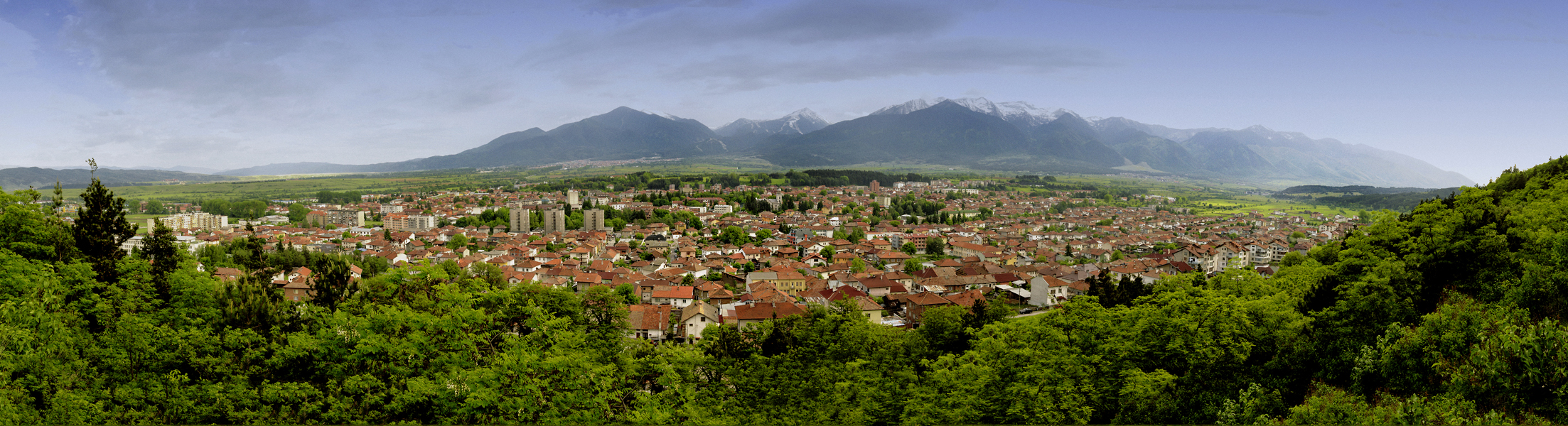 View of Razlog and Pirin mountains